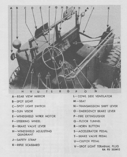 US Army M425 truck interior view